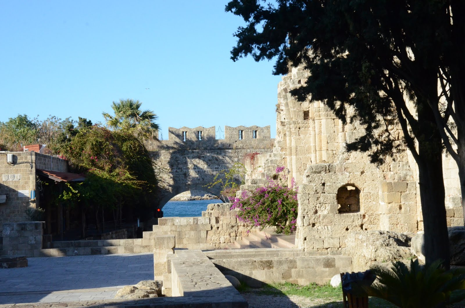 Rhodes-Gate of the Virgin seen form the church of the Virgin of the Burgh